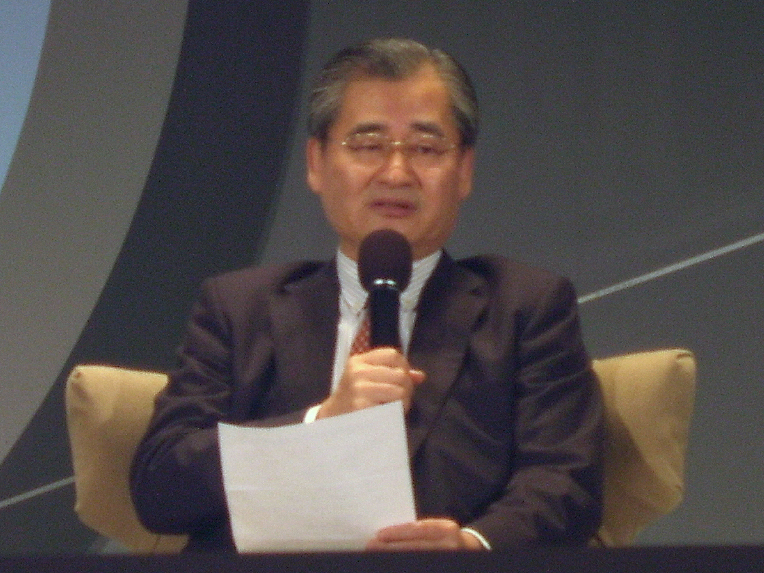 Chih-kuo Mao, Decision and Change Management Chair Professor and Dean of Management College, NCTU, Taiwan, R.O.C. Taken at e21 Forum in Taipei International Convention Center.)